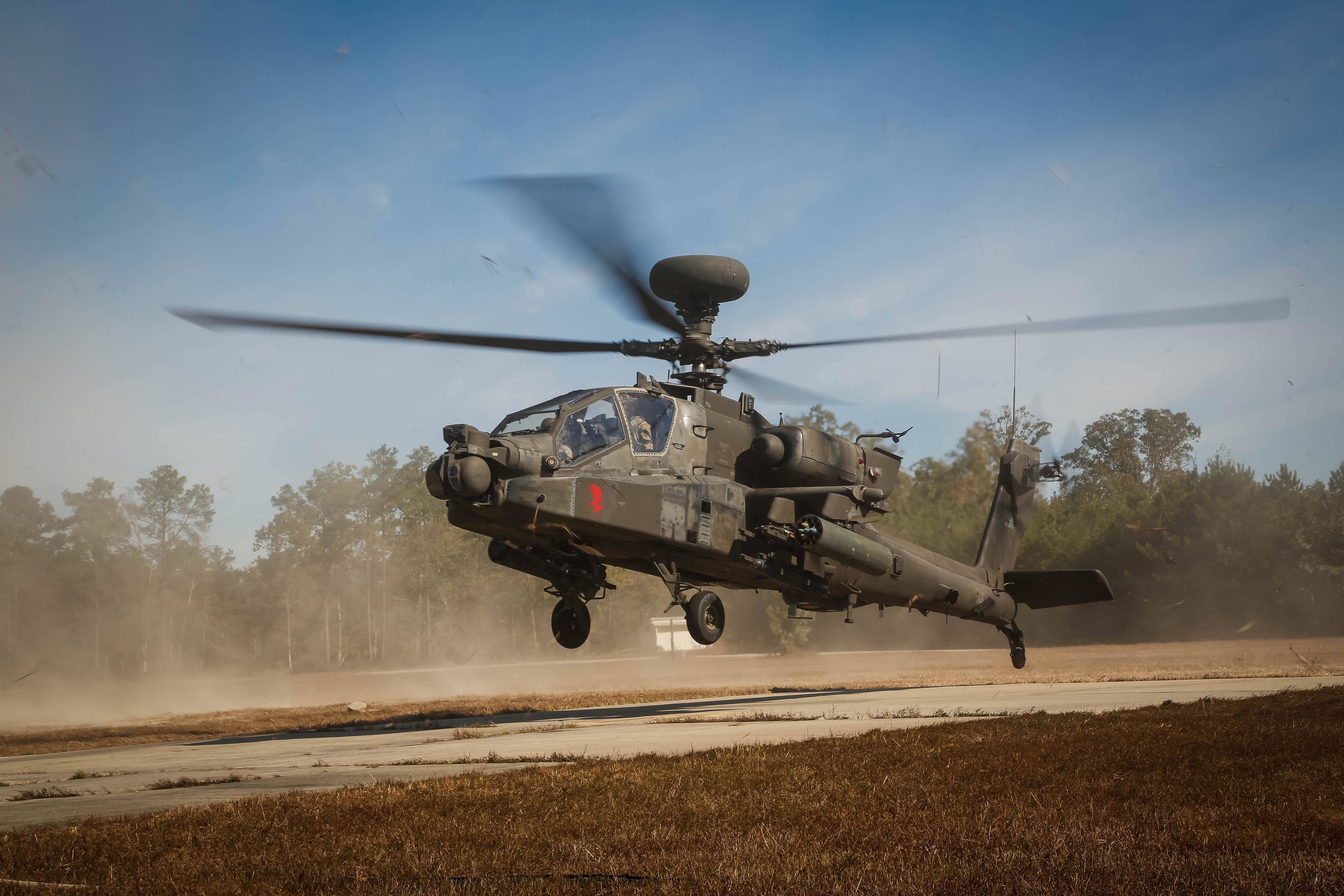 AH-64D apaches from 1st Attack Reconnaissance Battalion, 82nd Combat Aviation Brigade, descends onto the forward rearming and refueling point to re-load its weapon systems, during an aerial gunnery exercise, at Fort A.P. Hill, Va., Oct. 26. (U.S. Army photo by Cpl. Randis Monroe)